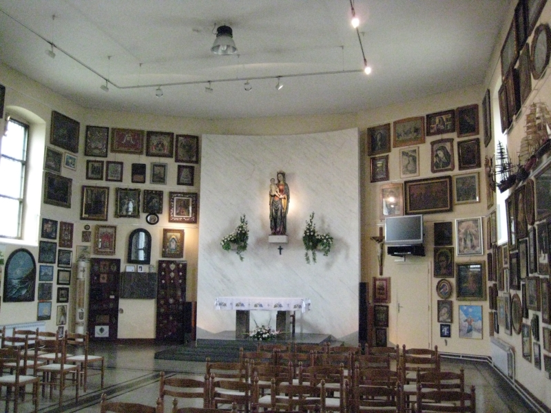 Chapel of votive gifts; Franciscan Monastery at the church of Our Lady of Trsat; Kapela zavjetnih darova uz crkvu Gospe Trsatske, Rijeka, Croatia